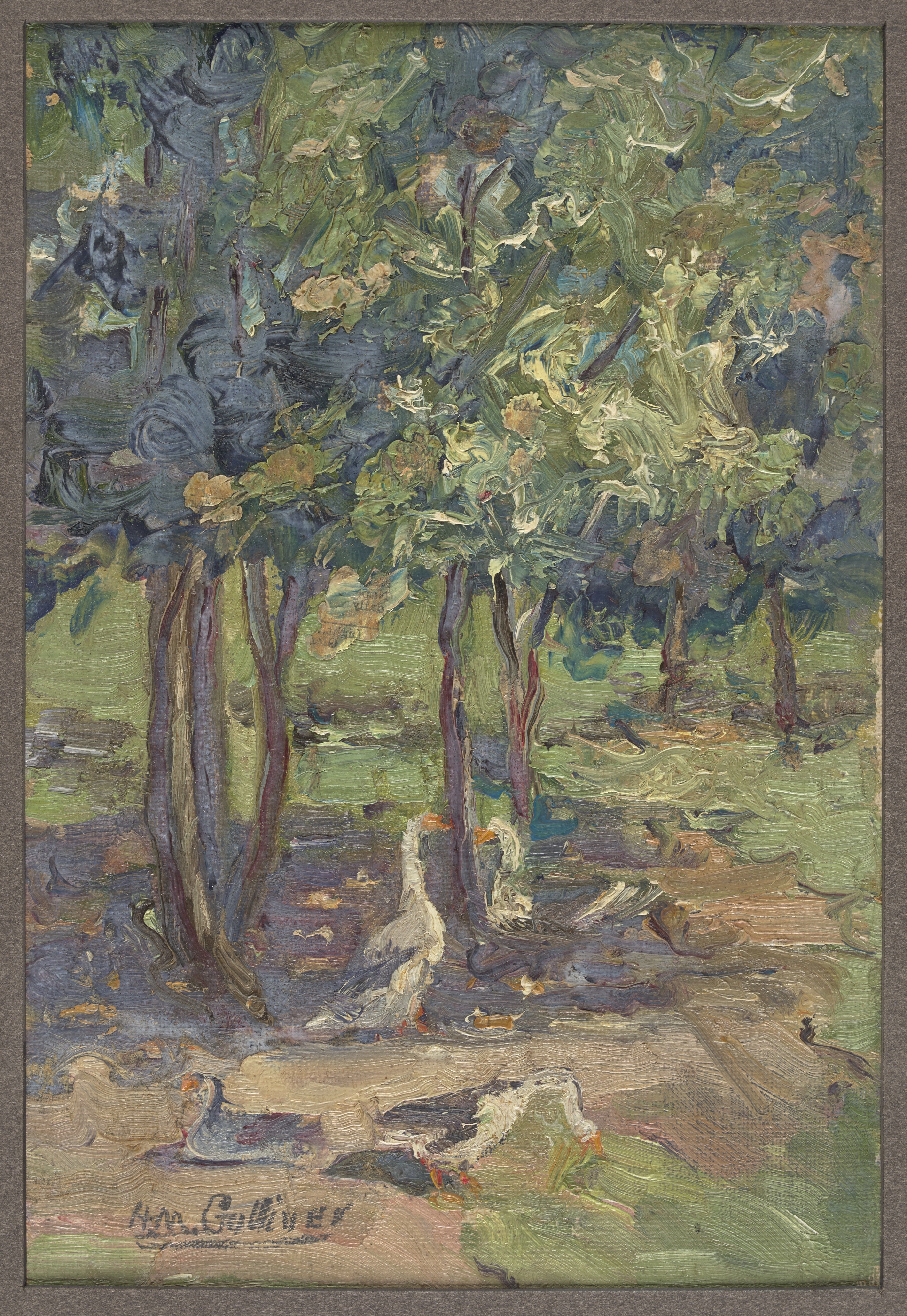 Ducks by Henrietta Maria Gulliver (ca. 1924)